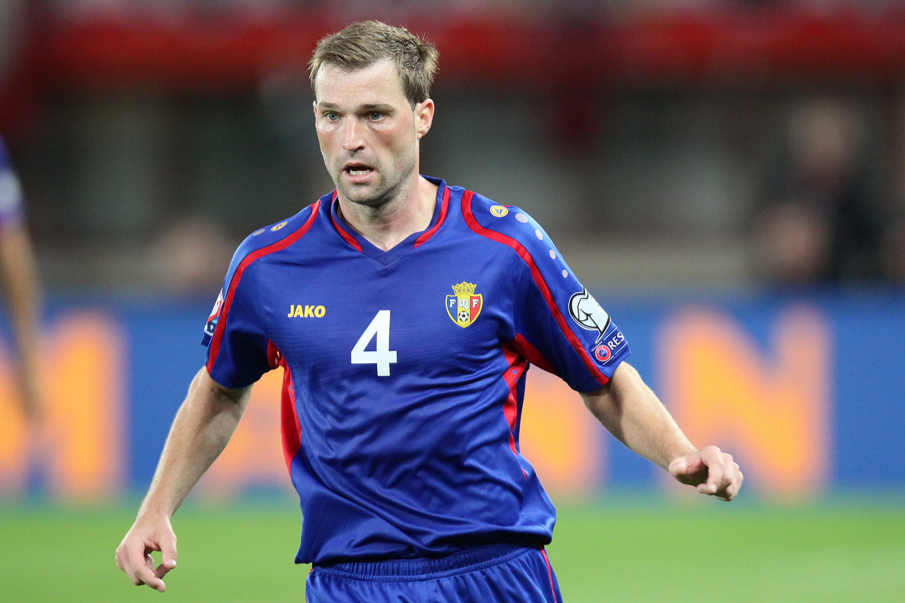 UEFA Euro 2016 qualifying, Group G – Austria national football team (red shirts) vs. Moldova national football team (blue shirts) on 2015-09-05 in Ernst-Happel-Stadion, Vienna: The photo shows Iulian Erhan